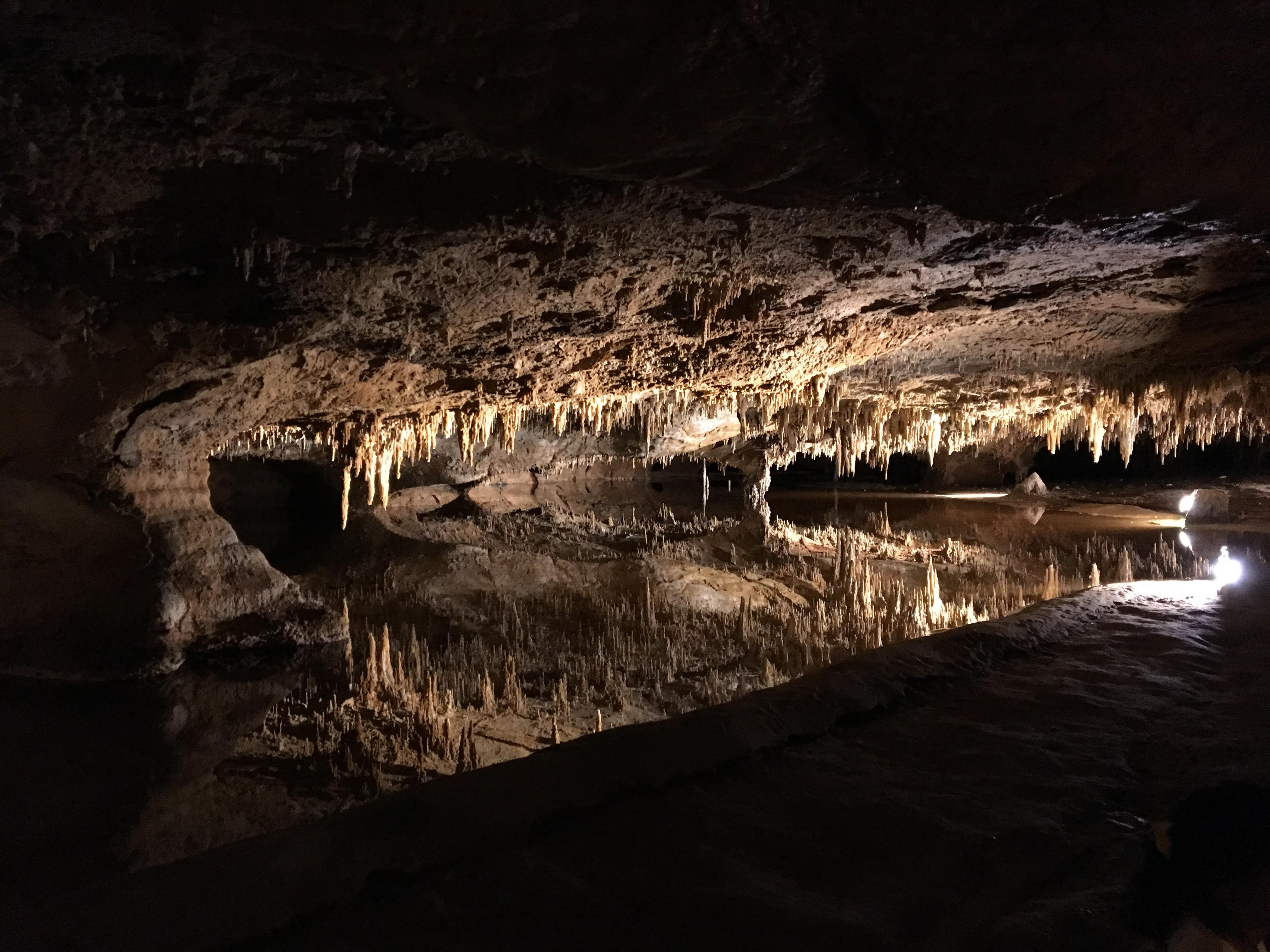 This is also the Reflecting Lake in Luray Caves, but from another angle and light